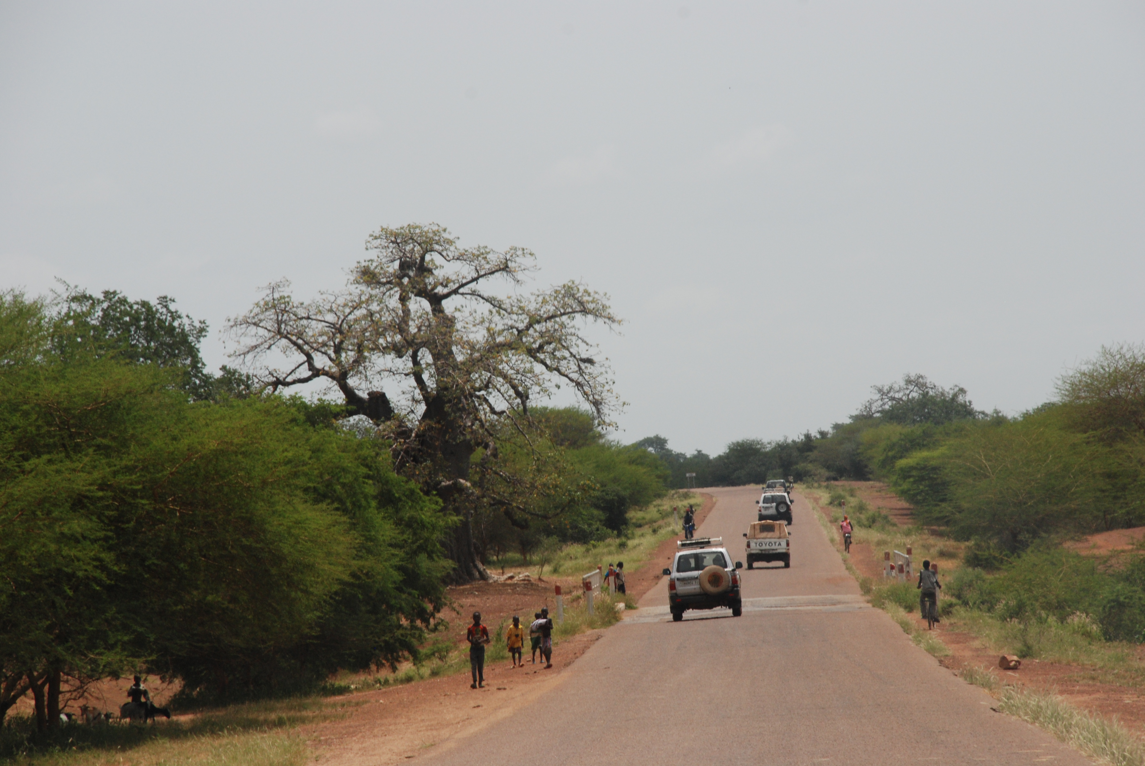 Province of Gourma, Burkina Faso, West Africa, street south of Fada N'Gourma - direction border Benin)